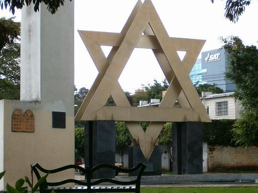 Israel Square, Guatemala City